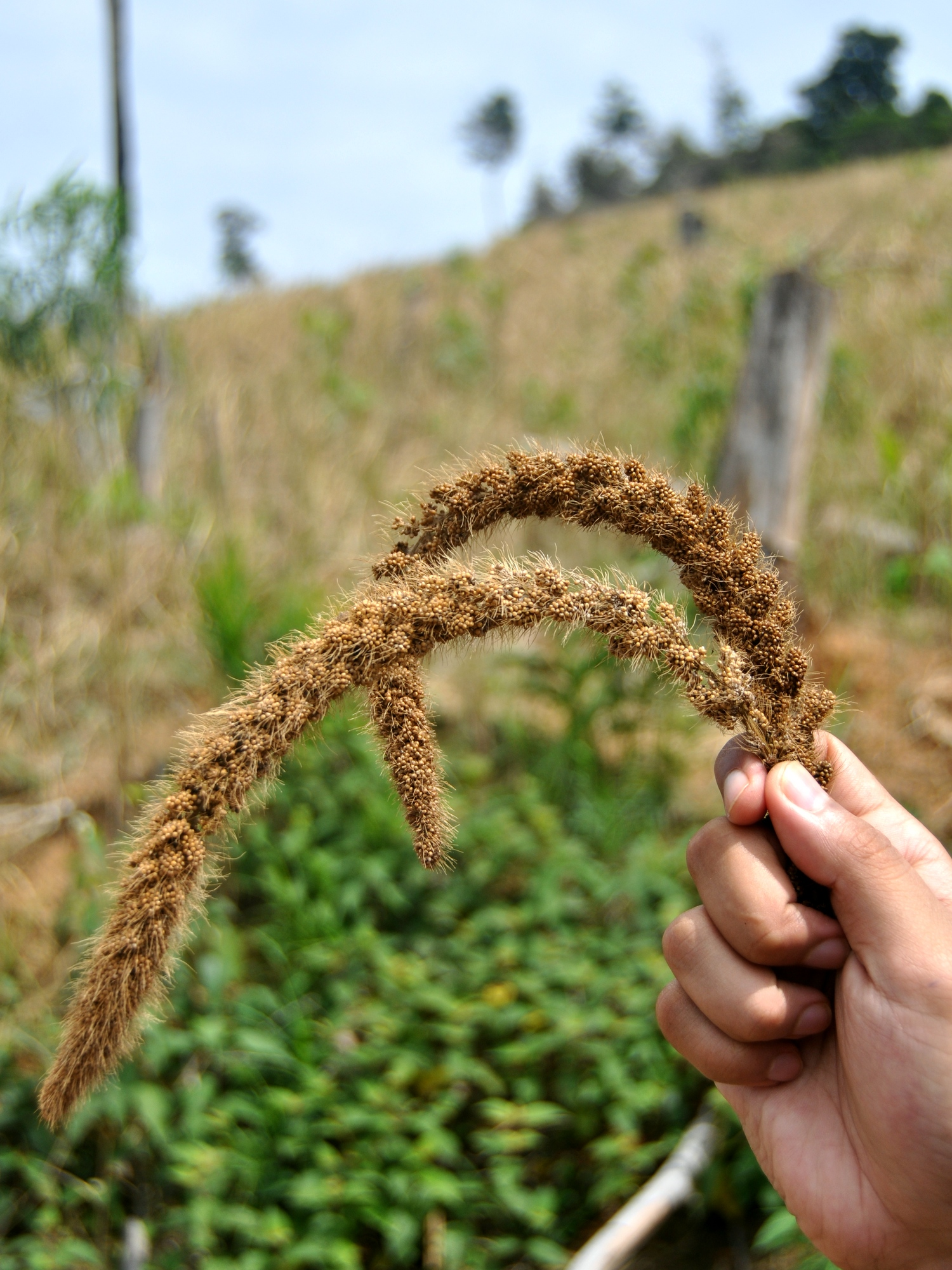 Setaria italica, planted in Jambi, Sumatra, Indonesia.